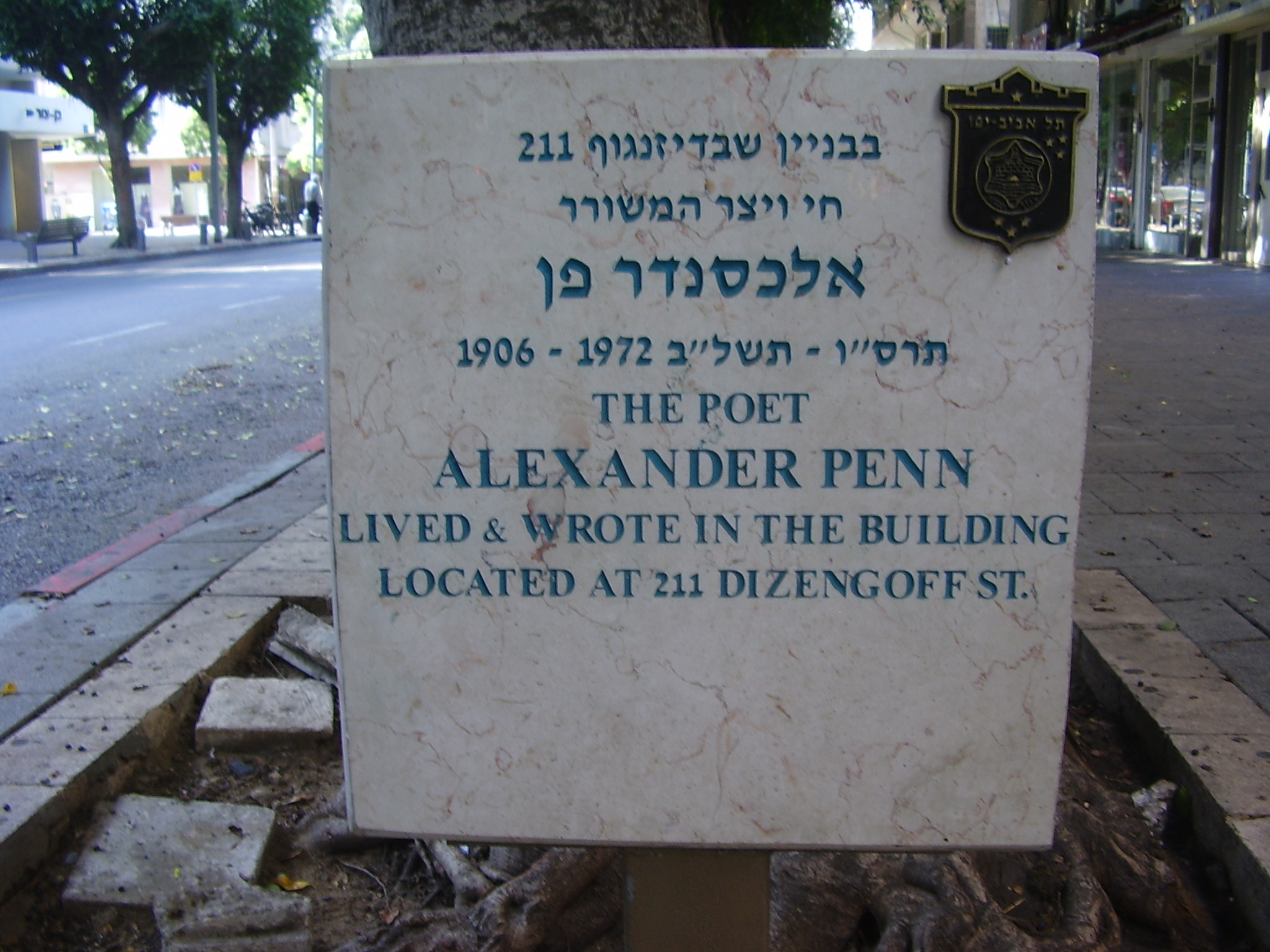 plaque memorial to the poet alexander penn in tel aviv לוחית זיכרון למשורר אלכסנדר פן ליד ביתו ברח' דיזנגוף 211 בתל אביב